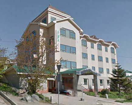 Alfa Hotel in Korsakov, Sakhalin